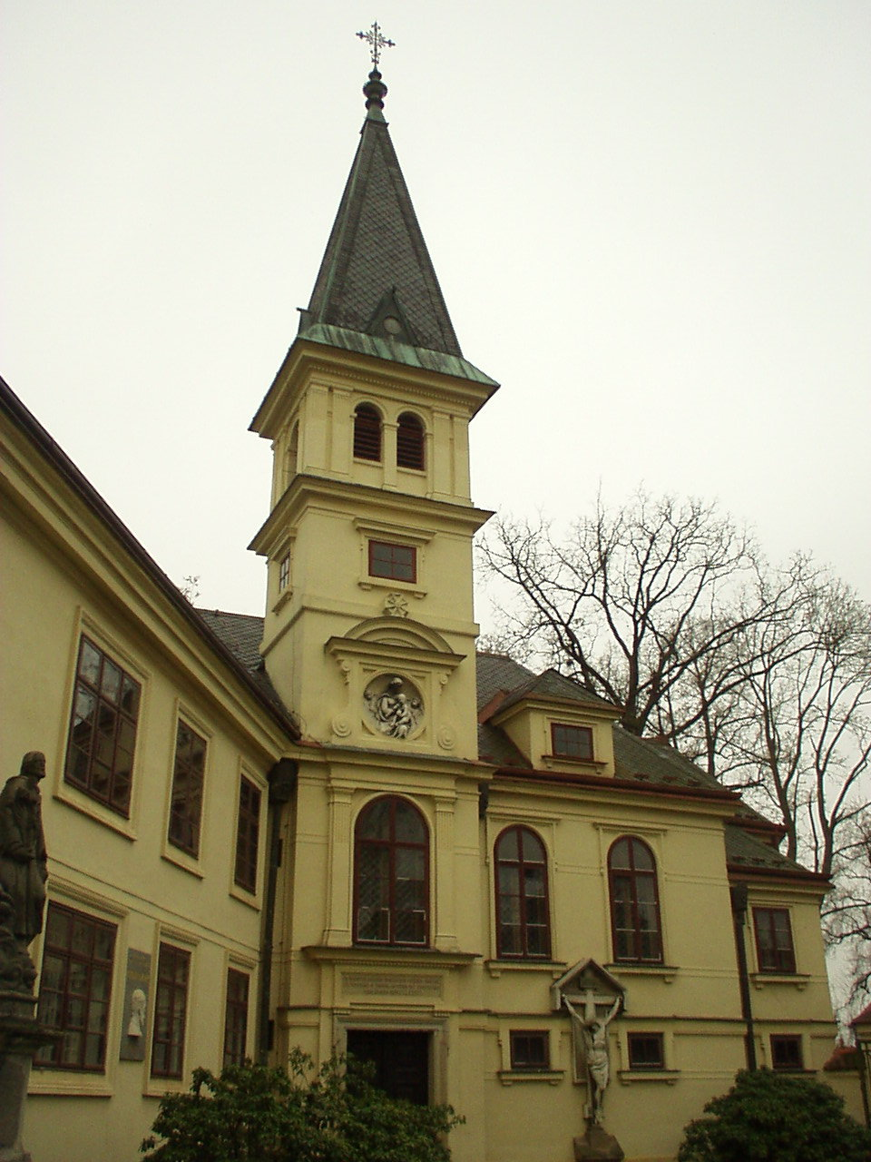 Castle Lužany, Plzeňský kraj, Czech Republic